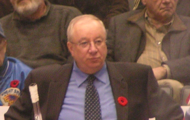 Jacques Demers coached Montreal Canadiens Alumni at the Legends Clasic in Toronto